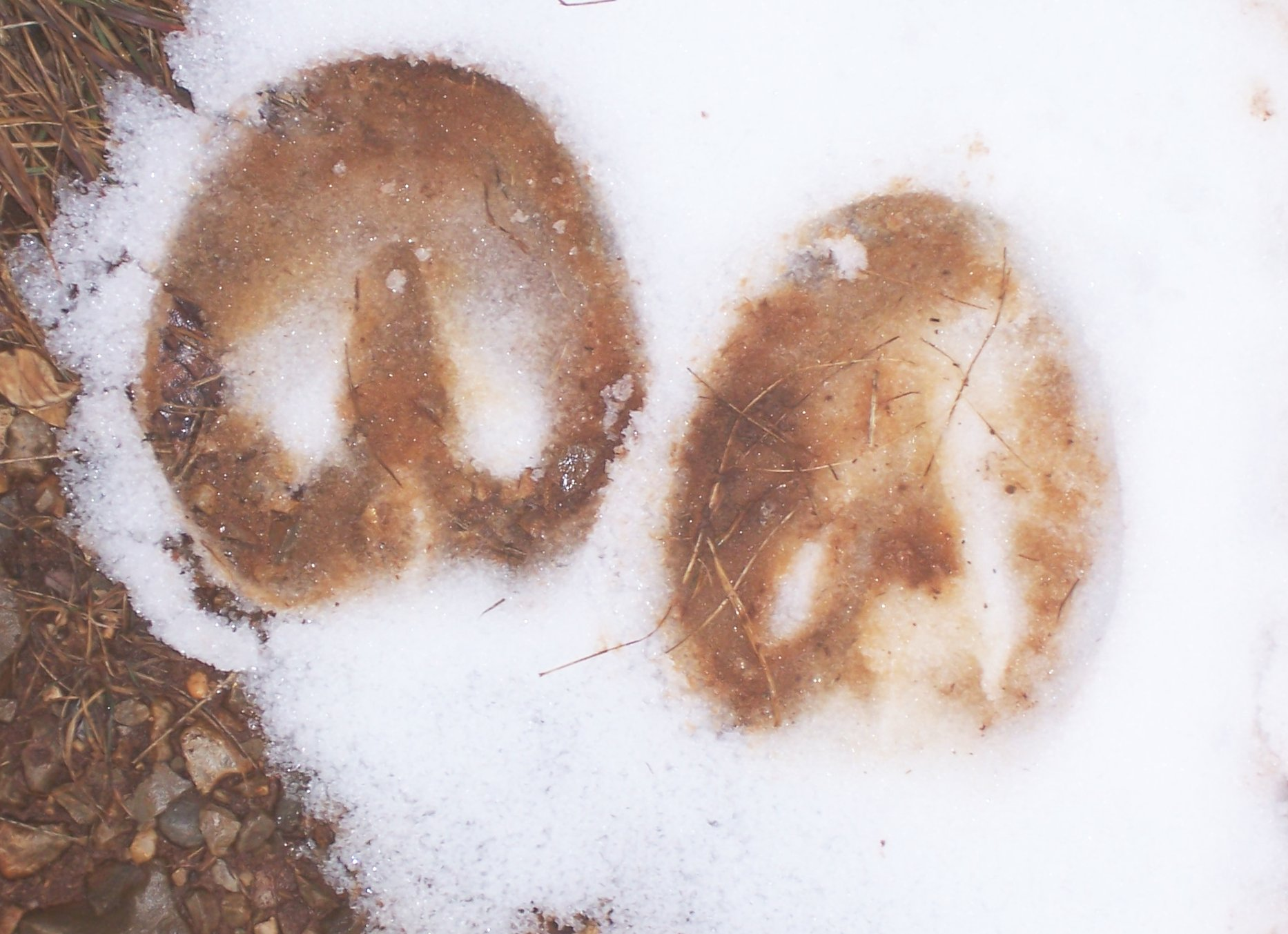 A front (left) and hind (right) footprint of a barefoot mare (1 year after de-shoeing). Note the different shape of front and hind hoof (the front being rounder) and the large ground contact (walls, sole, heels and frog). Monfalcone (Italy), 20.01.06.